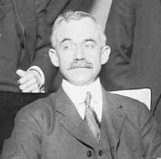 Cyrus C. Miller, Borough President of The Bronx, New York City from 1910 to 1914.